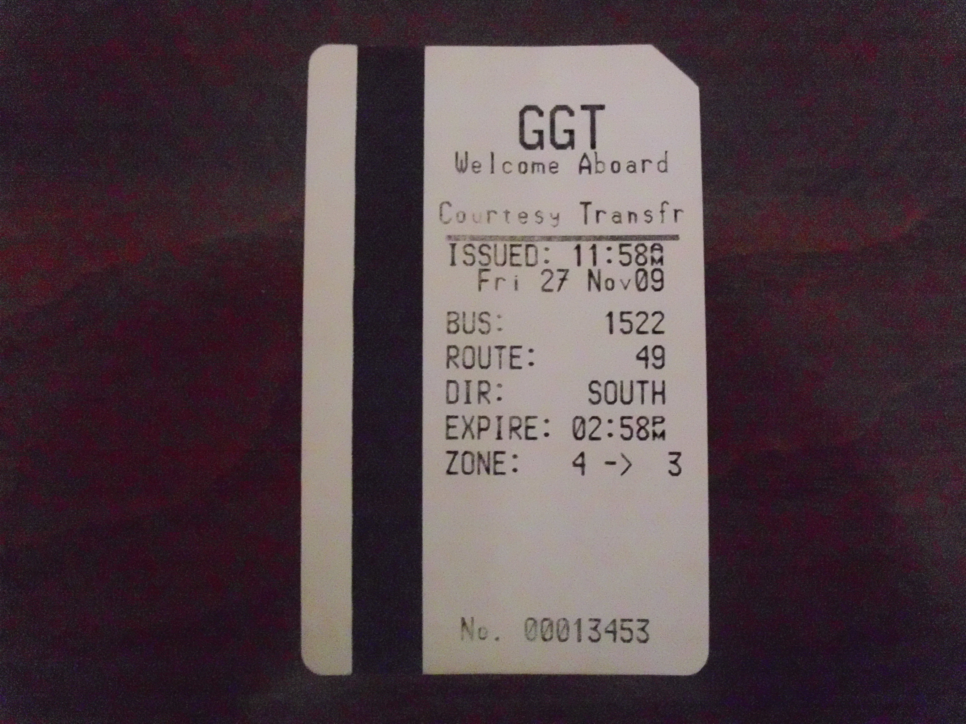 A magnetic strip transfer for local Golden Gate Transit service (operated under contract with Marin Transit), indicating the validity of the transfer ticket as 3 hours total. The transfer is from a southbound Route 49, and the zone coverage is from zone 4 (Novato) to zone 3 (Central Marin).